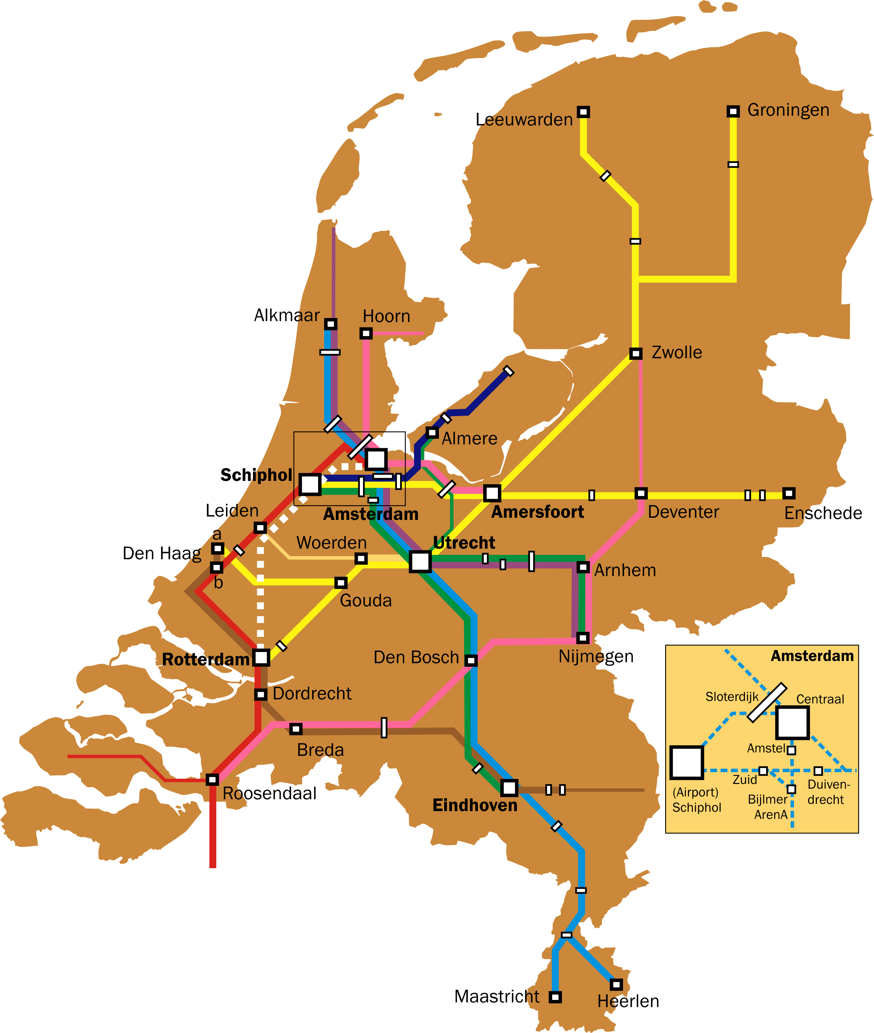 Map of the Dutch Intercity network. Thin lines are used for all-stops services that are a continuation of intercity services (e.g. the Roosendaal - Vlissingen leg of the Amsterdam-Vlissingen trains). Further notes: Centraal is omitted. Extra intercities to Amersfoort Vathorst are considered part of the regular Amsterdam-Leeuwarden/Deventer connection, even though those trains don't stop at Amersfoort Schothorst or Vathorst. Additional Den Haag-Utrecht services are likewise considered to be part of the regular Den Haag-Groningen/Enschede services, even though these used to run Den Haag-Utrecht-Arnhem. The full complexity of the intercities through Amersfoort is impossible to show, I fear (from Schiphol, The Hague and Rotterdam, to Enschede, Groningen and Leeuwarden - for those last two, half of the trains running as all-stops services after Zwolle). Suggestions are welcome. Two station names did not fit in: a) Den Haag Centraal b) Den Haag Hollands Spoor